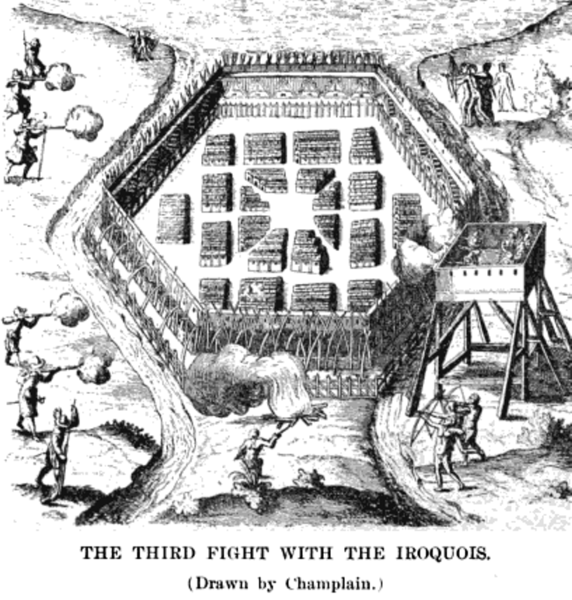 The Battle of Sorel occurred on June 19, 1610, with Samuel de Champlain and his allies against the Mohawk people in New France at was is now called Sorel-Tracy, Quebec. Other information Samuel de Champlain (August 13, 1574 – December 25, 1635)